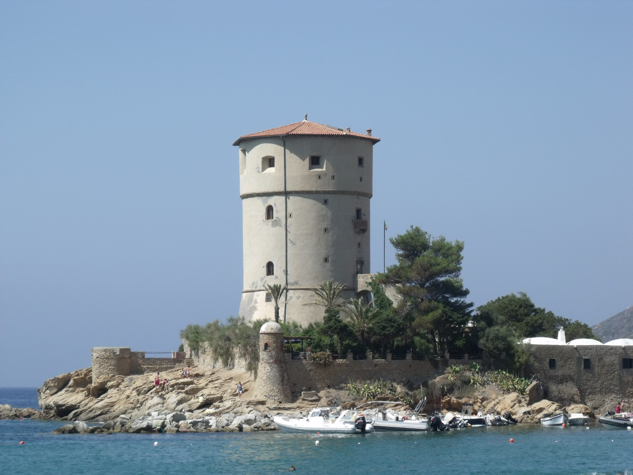 Torre del Campese, Giglio Campese, Province of Grosseto, Tuscany, Italy